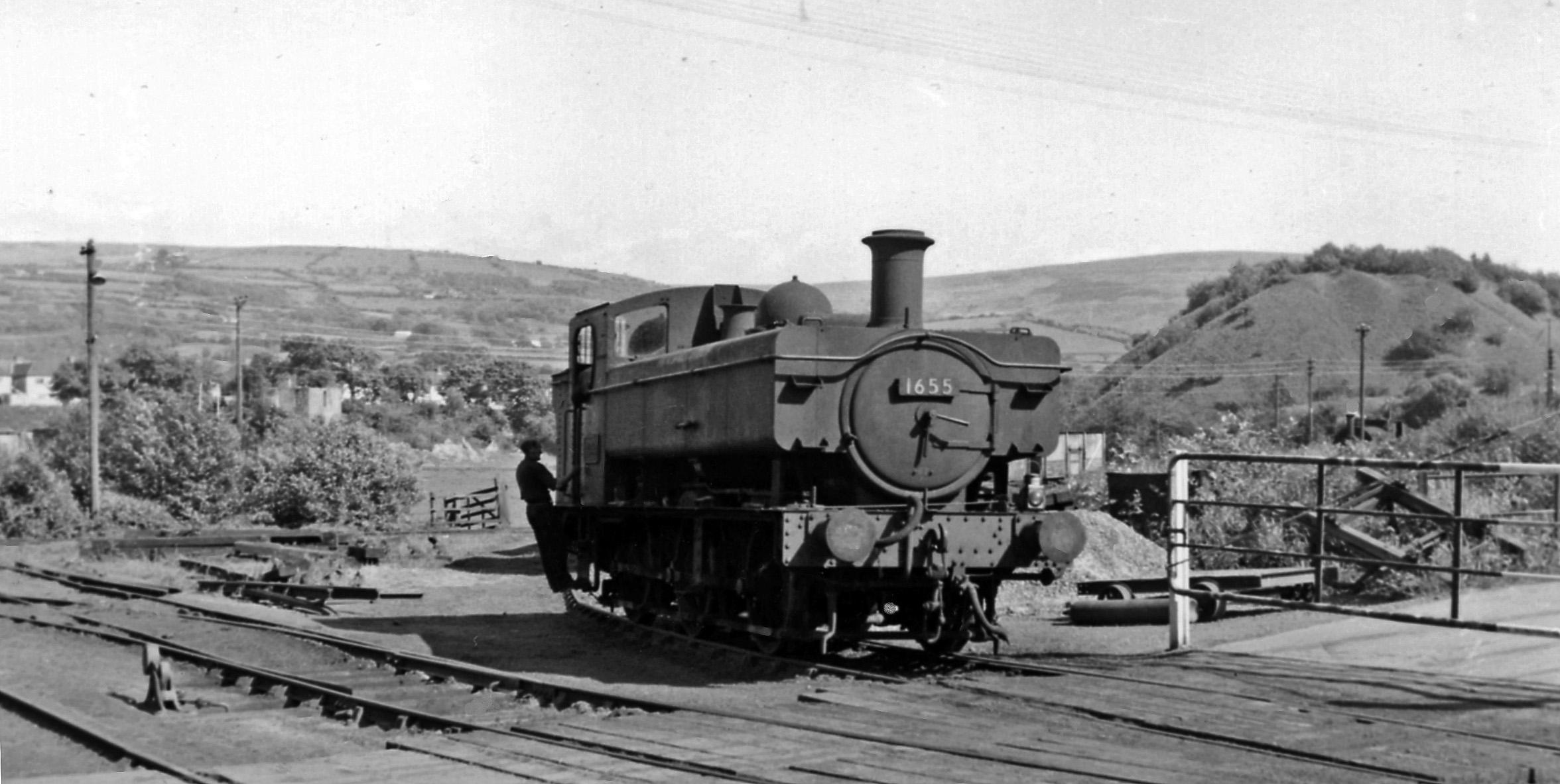 GW/WR Pannier Tank in sidings of Tirydail Colliery, near Ammanford. View apparently NW, near Tirydail station, on Llandilo - Pontadulais/Llanelly (ex-GW&LNW) section of the Central Wales Line, with the 'Mountain' Branch to many other collieries going to the left. The locomotive is 'modern' GW-design '1600' class 0-6-0T No. 1655 (built 1/55, withdrawn 7/65).